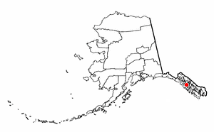 Adapted from Wikipedia's AK borough maps by Seth Ilys.